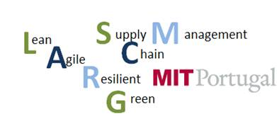 LARGe Supply Chain Management